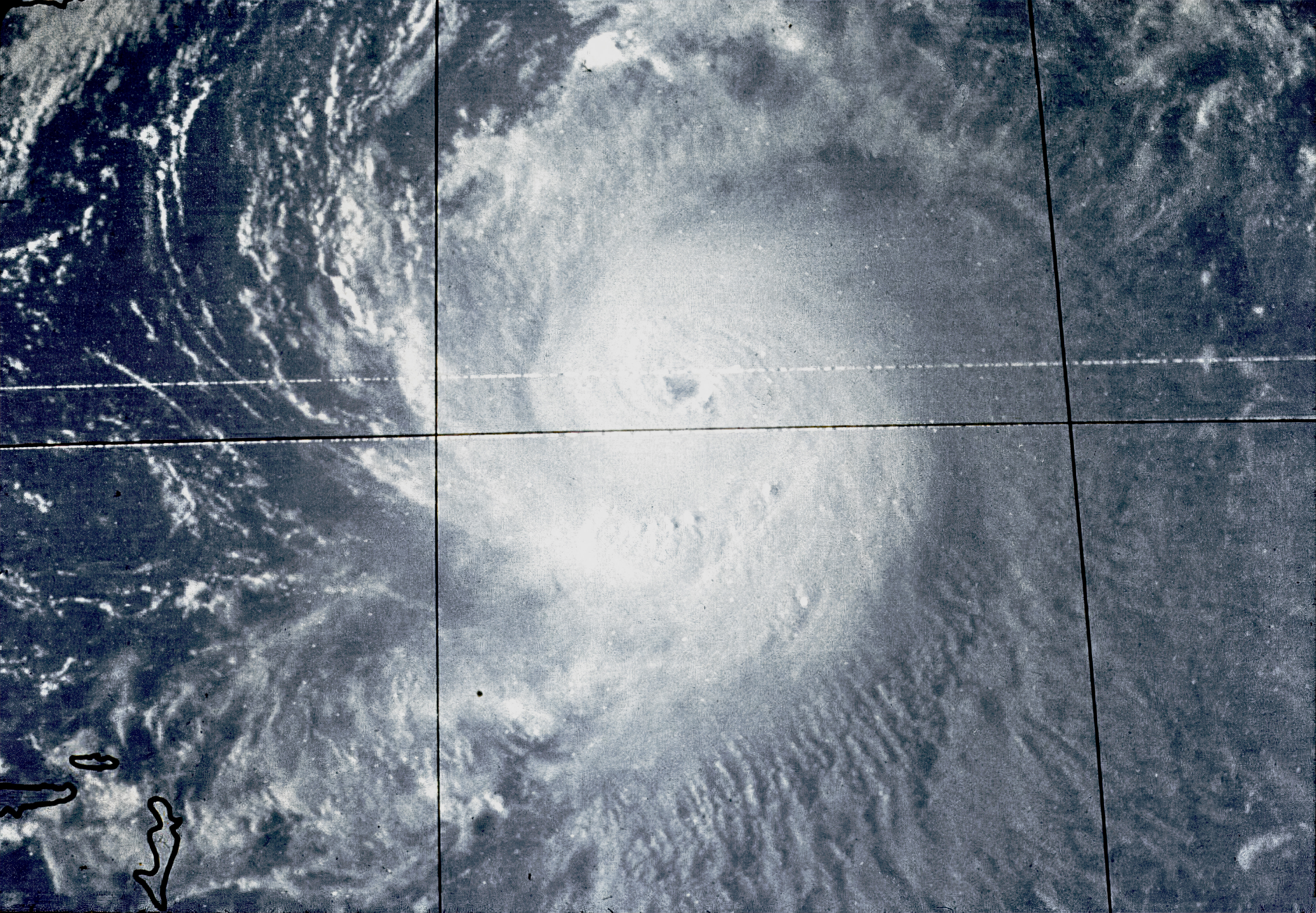 Hurricane Gladys on October 1, 1975